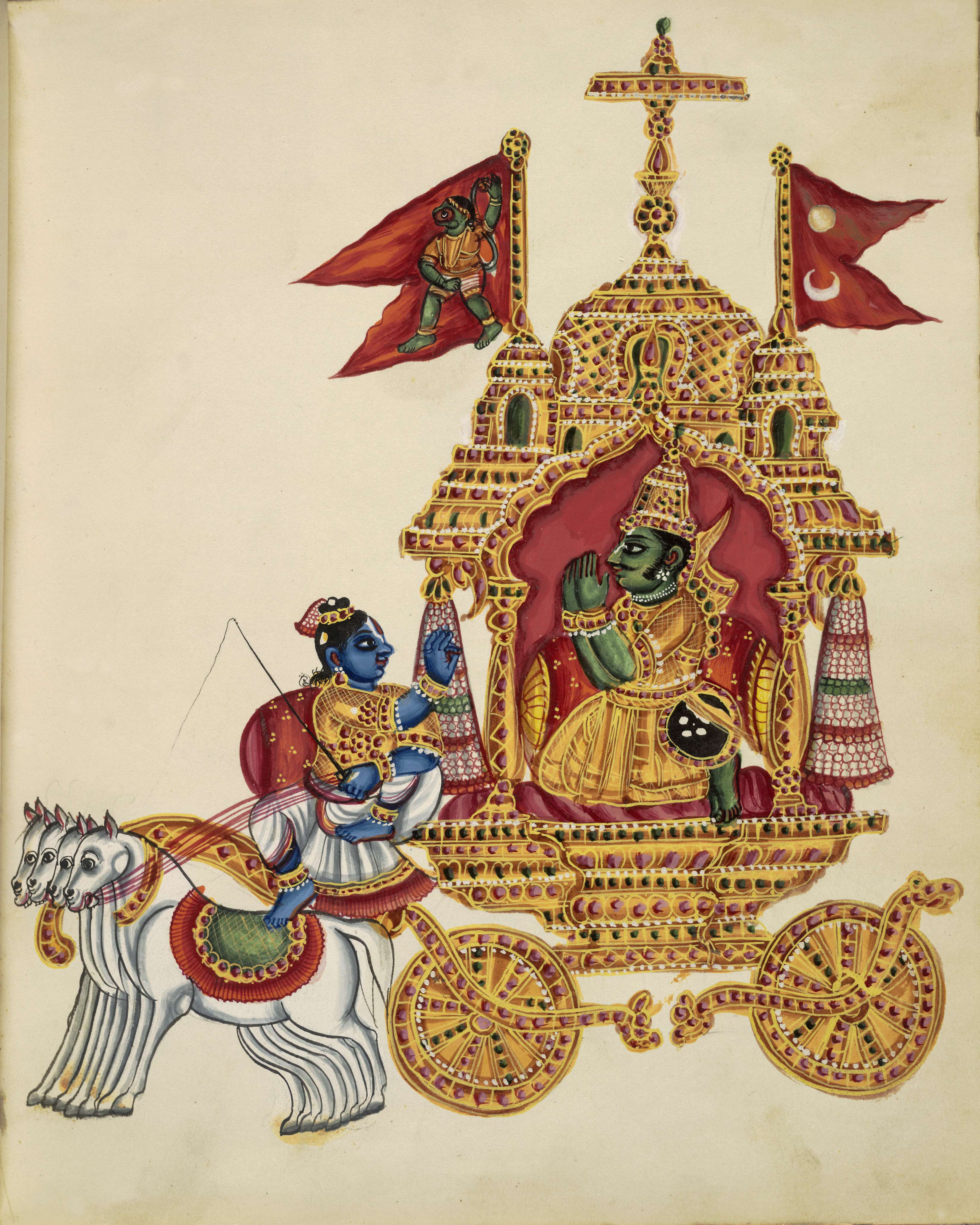 "Part of an album of seventy paintings of Indian deities. Arjuna, dressed in courtly costume with a quiver slung over his shoulder and sword and buckler at his side, folds his hands in anjali mudra and kneels before his charioteer, Kṛṣṇa. The god sits holding the horses’ bridles, with his right hand raised in the teaching gesture, jnana mudra. Their conveyance is drawn by four horses, and its roof is surmounted by a chhattra. At its sides are two flags – one with the standard bearing Arjuna’s emblem, the Hanuman flag, and the other with images of the sun and moon"